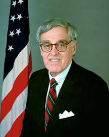 Frank E. Loy, United States Undersecretary of State for Global Affairs, 1998-2001.